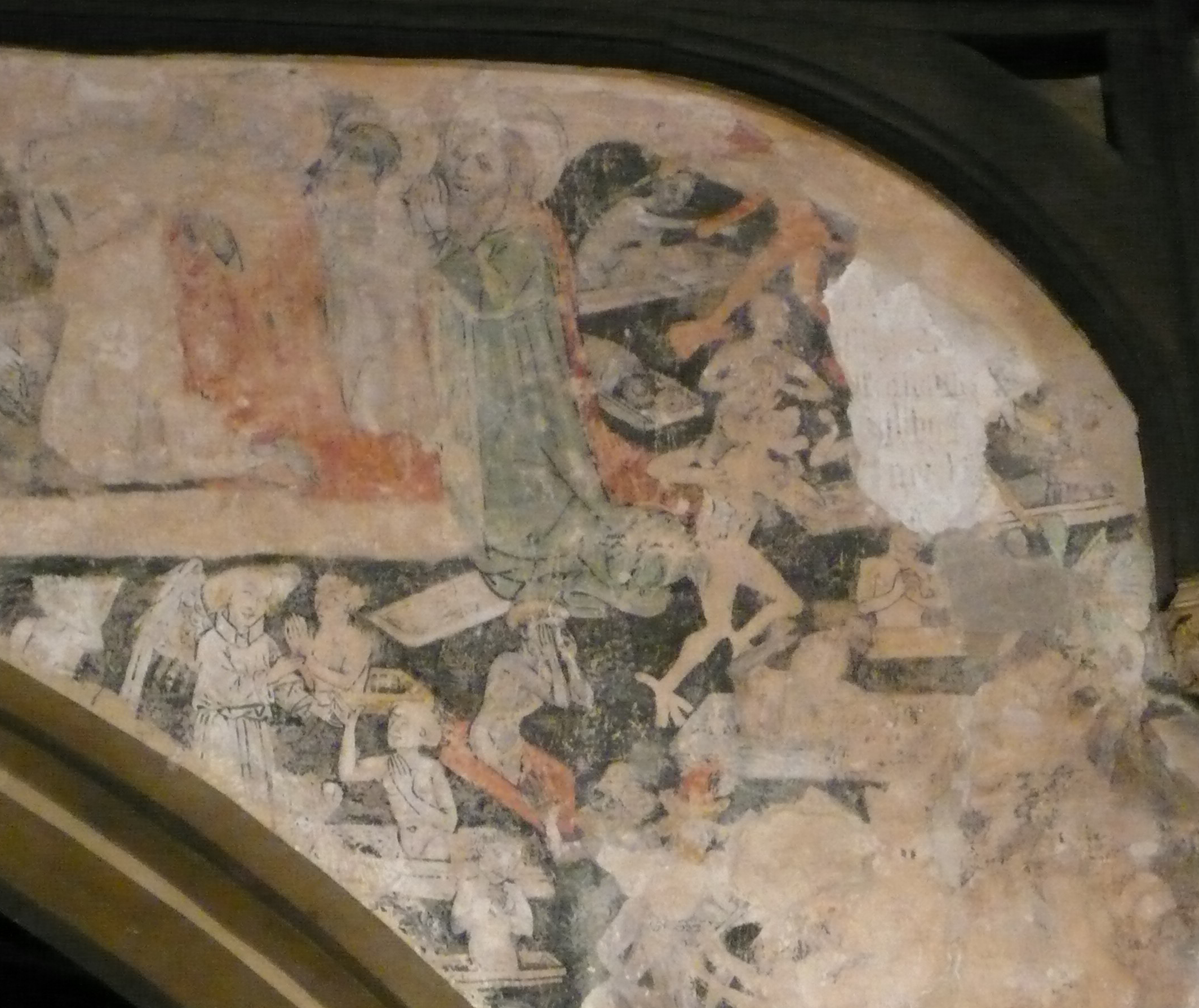 helloo bob